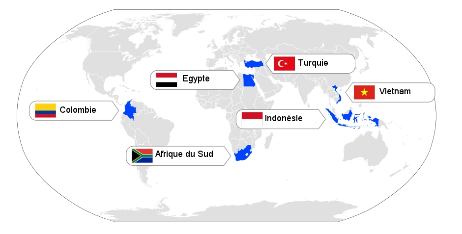 This file shows where the CIVETS are located in the world